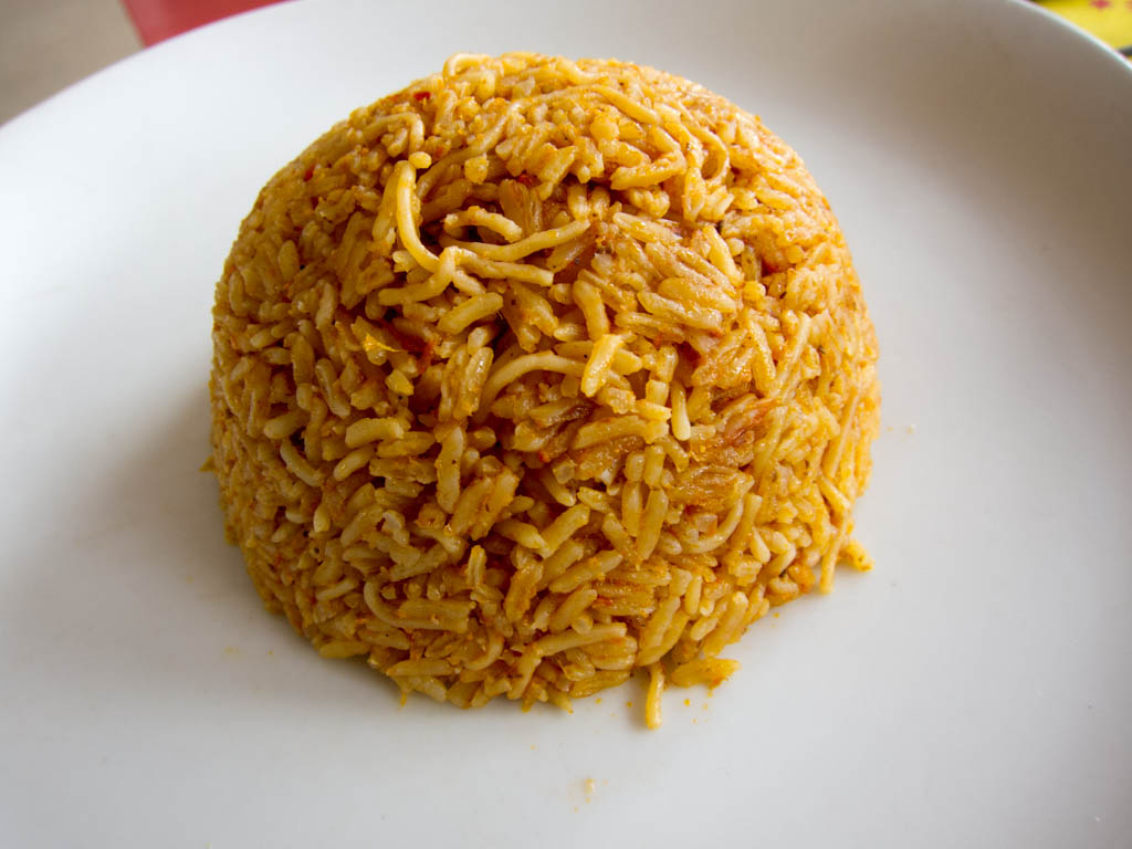 Ghanaian style cooked Jollof Rice, at Tante Marie, Accra Mall in Ghana.